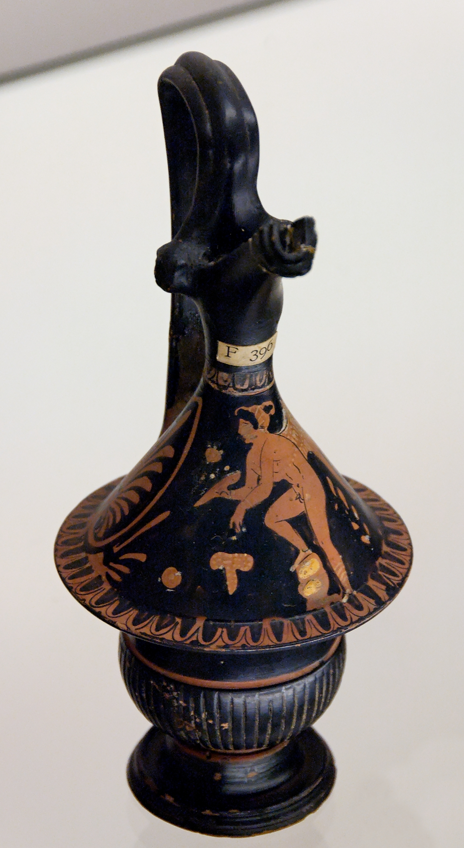 Eros. Apulian red-figured epichysis, ca. 340–320 BC. From the Basilicata.